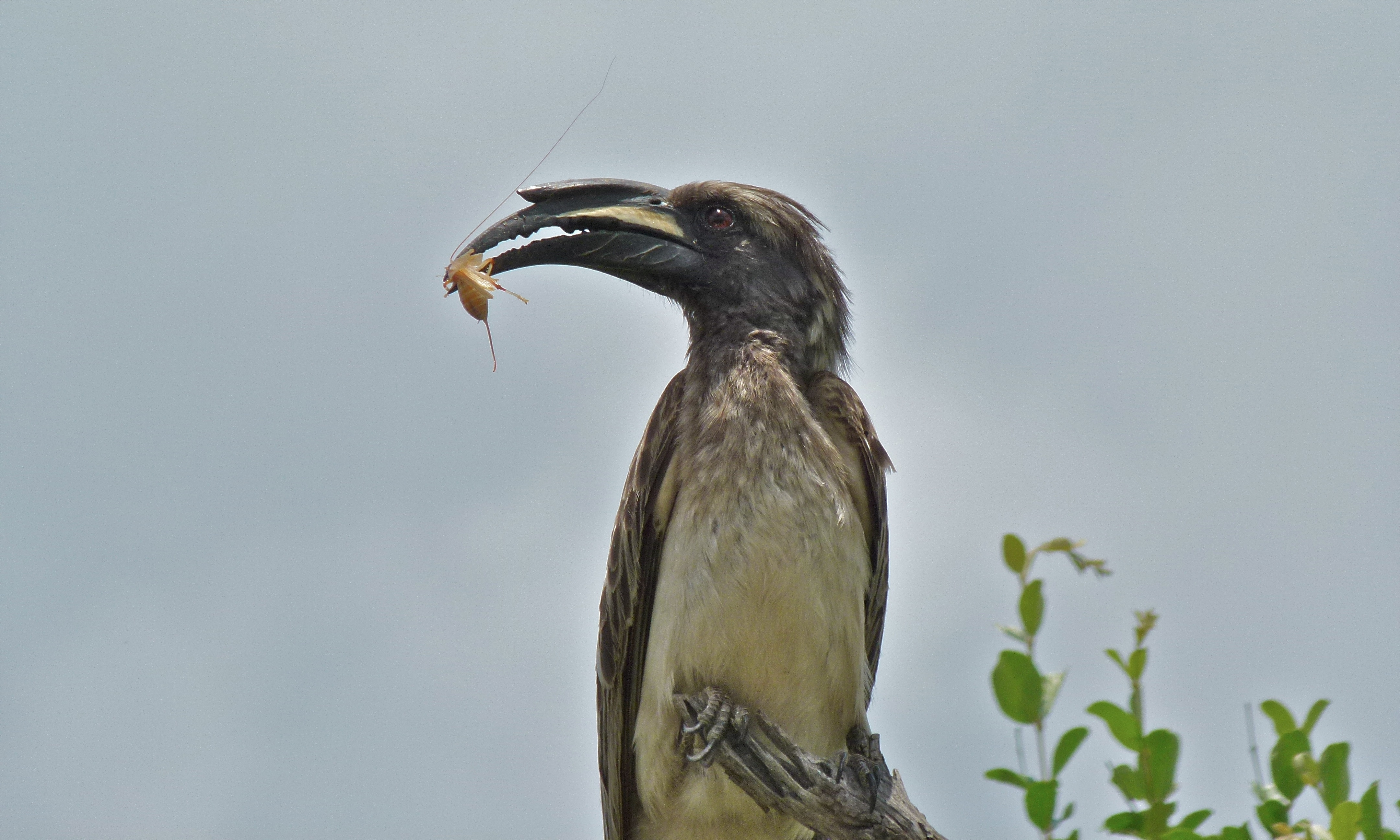 S39 North of Ratelpan, Kruger NP, SOUTH AFRICA